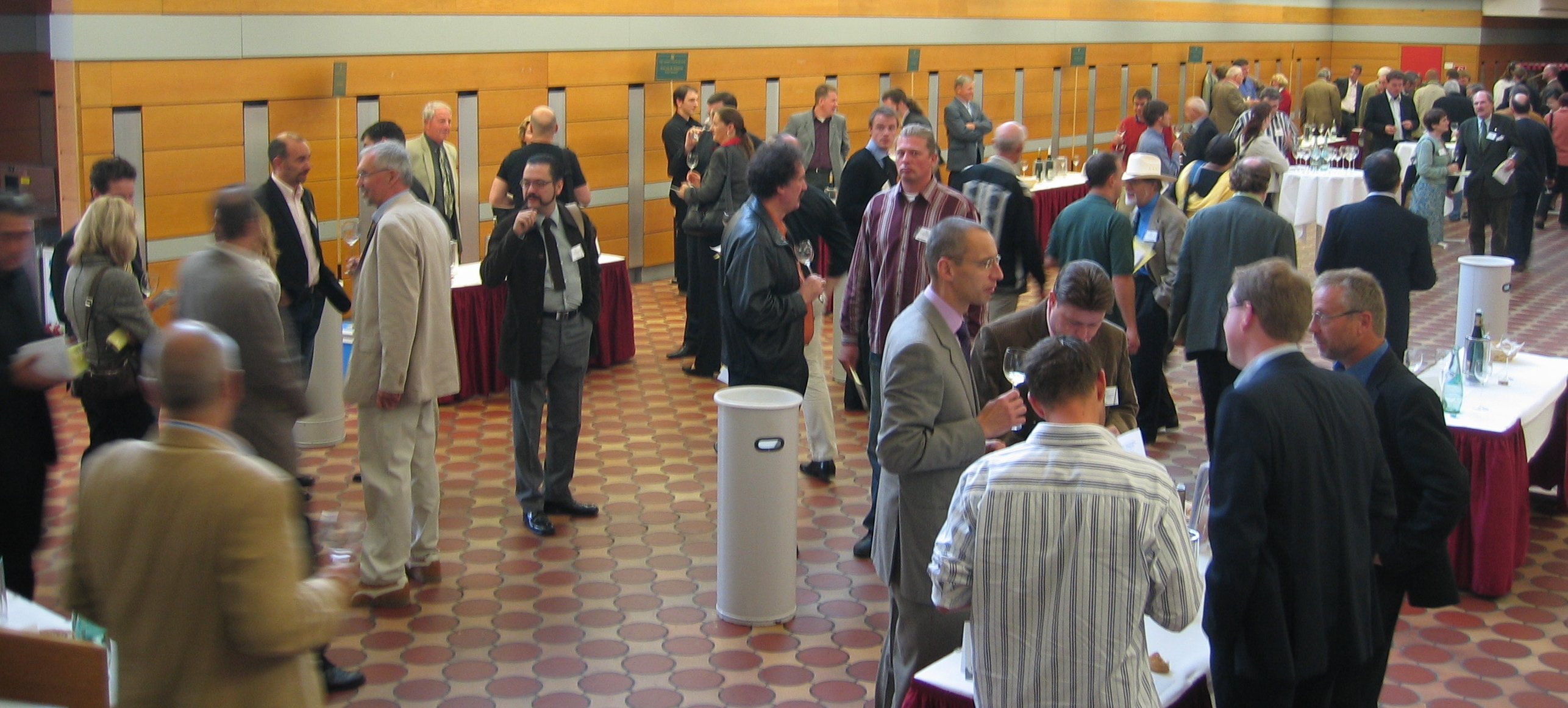 Pre-auction tasting for the 2007 VDP Grosser Ring auction at Europahalle, Trier, Germany